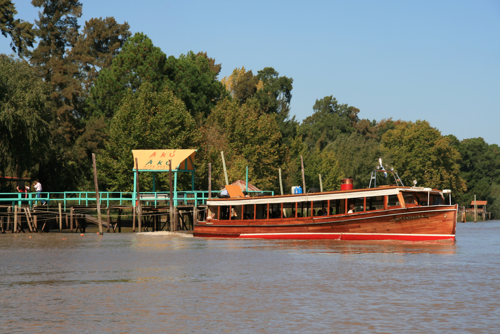 Vintage mahogany commuter boats in the Paraná Delta are the favourite way to travel through its web of inter-connecting rivers and streams.